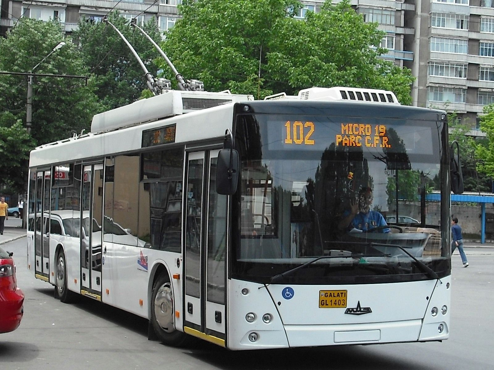 Galaţi, Romania trolleybus 1403, a 2008 MAZ 203T, entered service in early 2009.